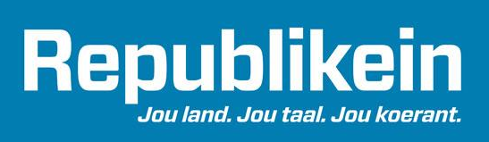 Logo of the Afrikaans language newspaper Die Republikein from Namibia.